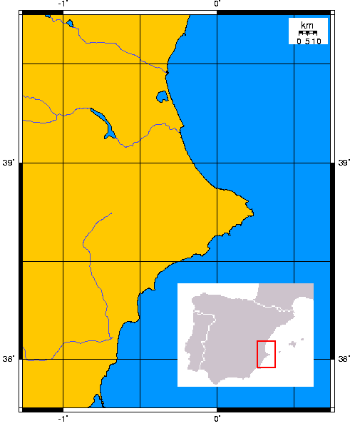 Cabo de la Nao created by user Carlos Quesada Granja using public domain Mercator projection map from